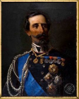 Portrait of italian general Alfonso La Marmora (1804-1878)